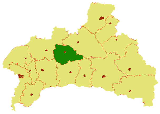 Biaroza District in Belarus